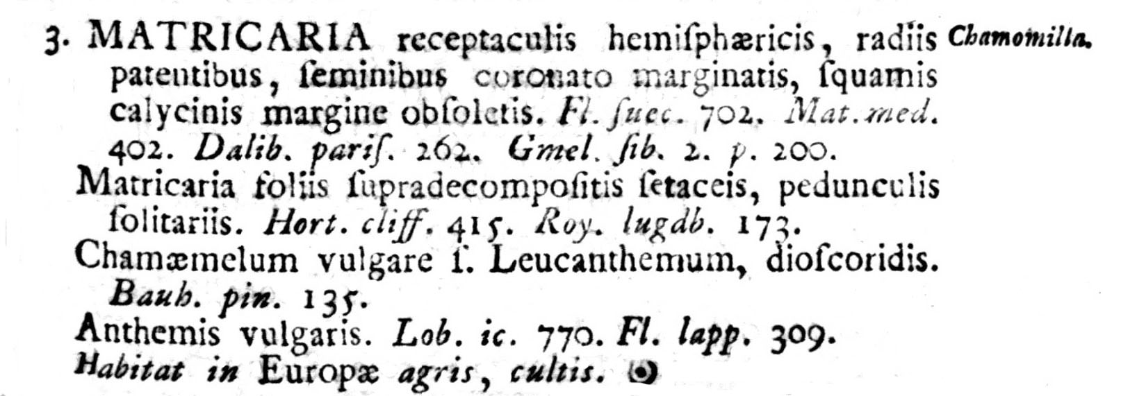 Description of Matricaria chamomilla in Linnaei Species plantarum 1753 vol 2 p 891